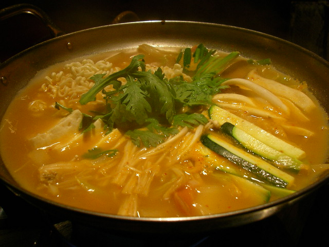 Budae jigae, a Korean stew